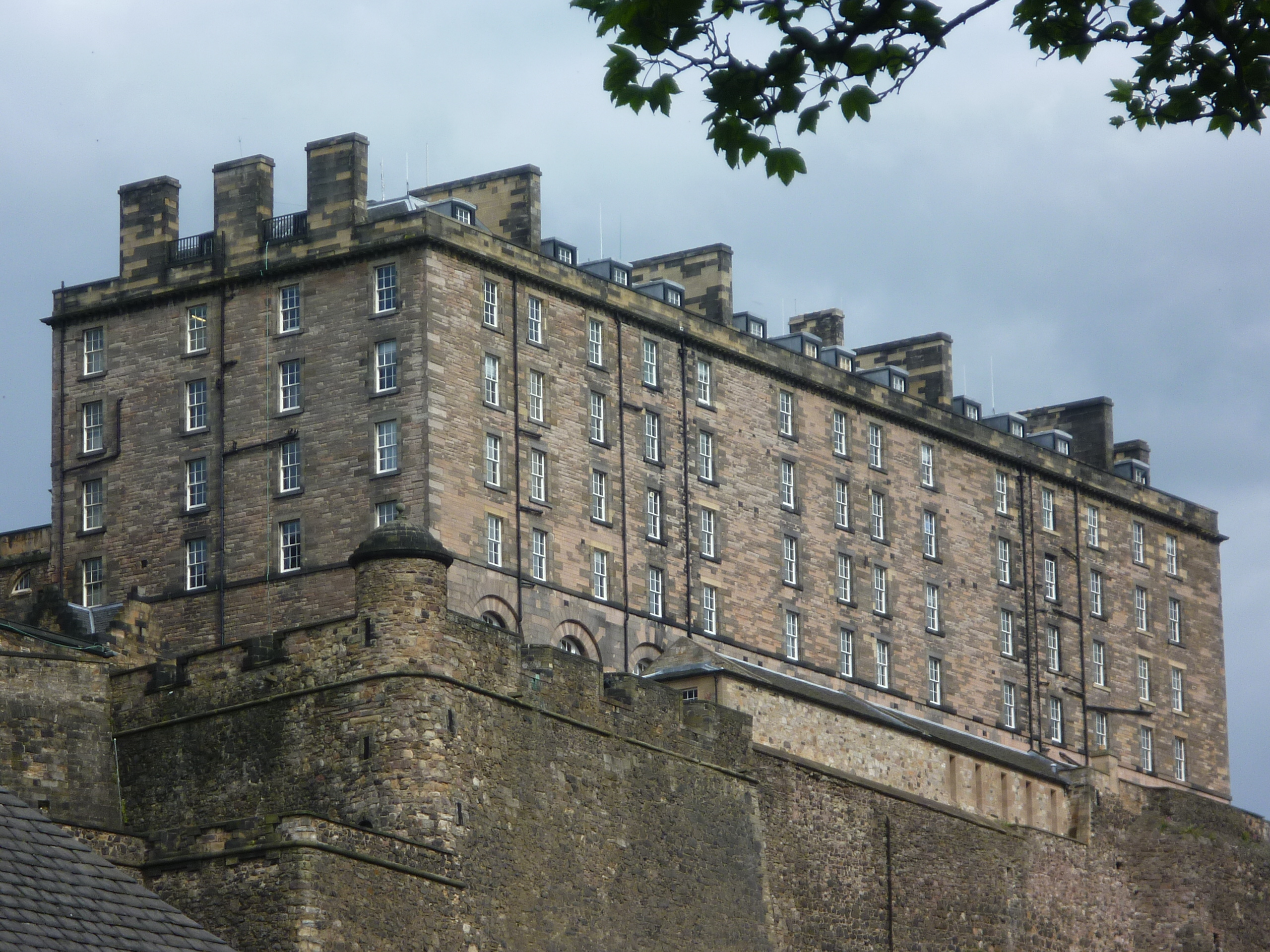 Hanoverian barrack block from the reign of George III, built 1796-99 to accommodate an infantry battalion of 600 officers and men during the war with Revolutionary France.